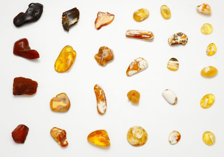 Unique Colours of Baltic Amber. Natural Baltic Amber